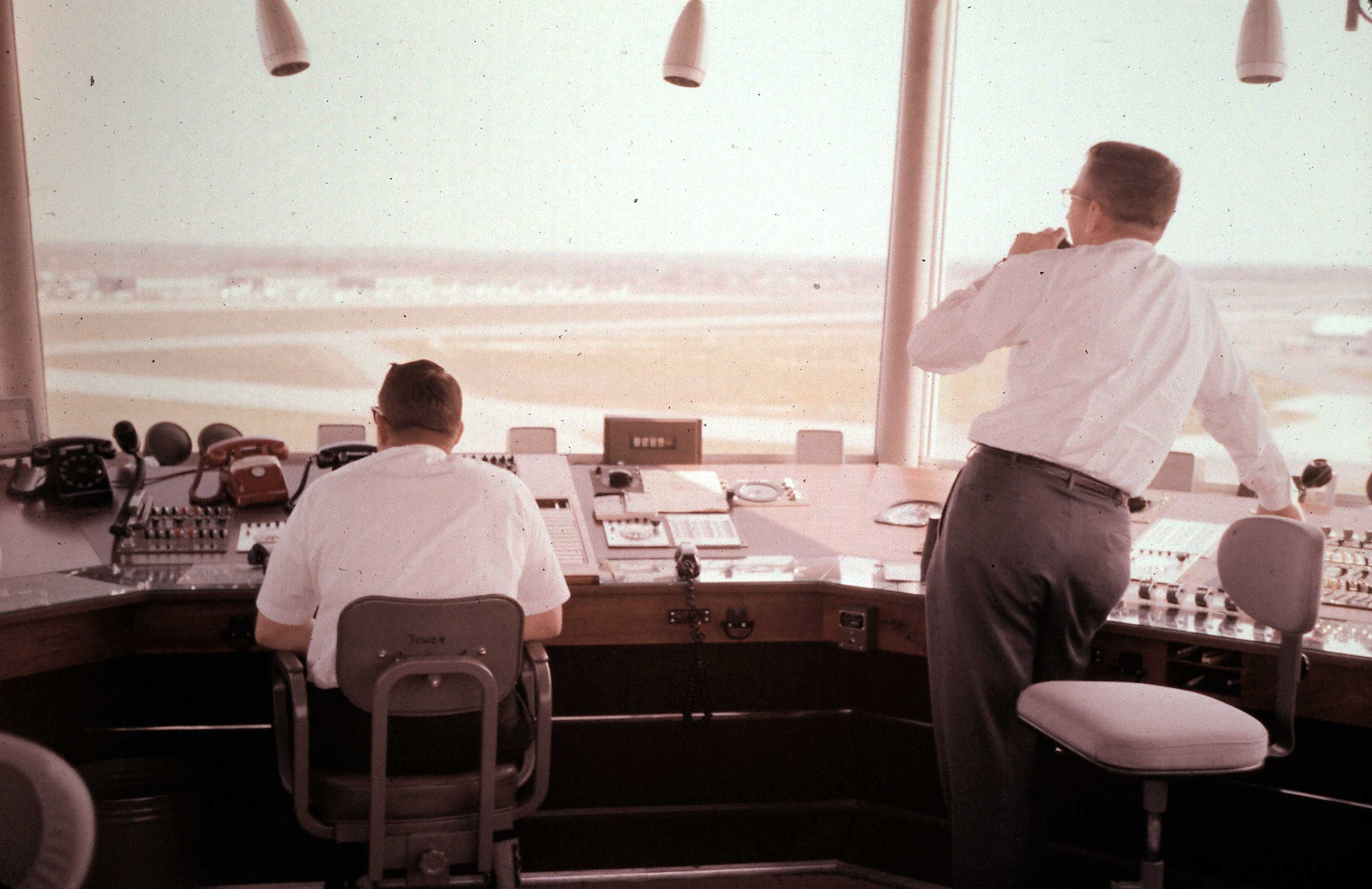 Civilian air traffic controllers. Memphis, Tennessee.